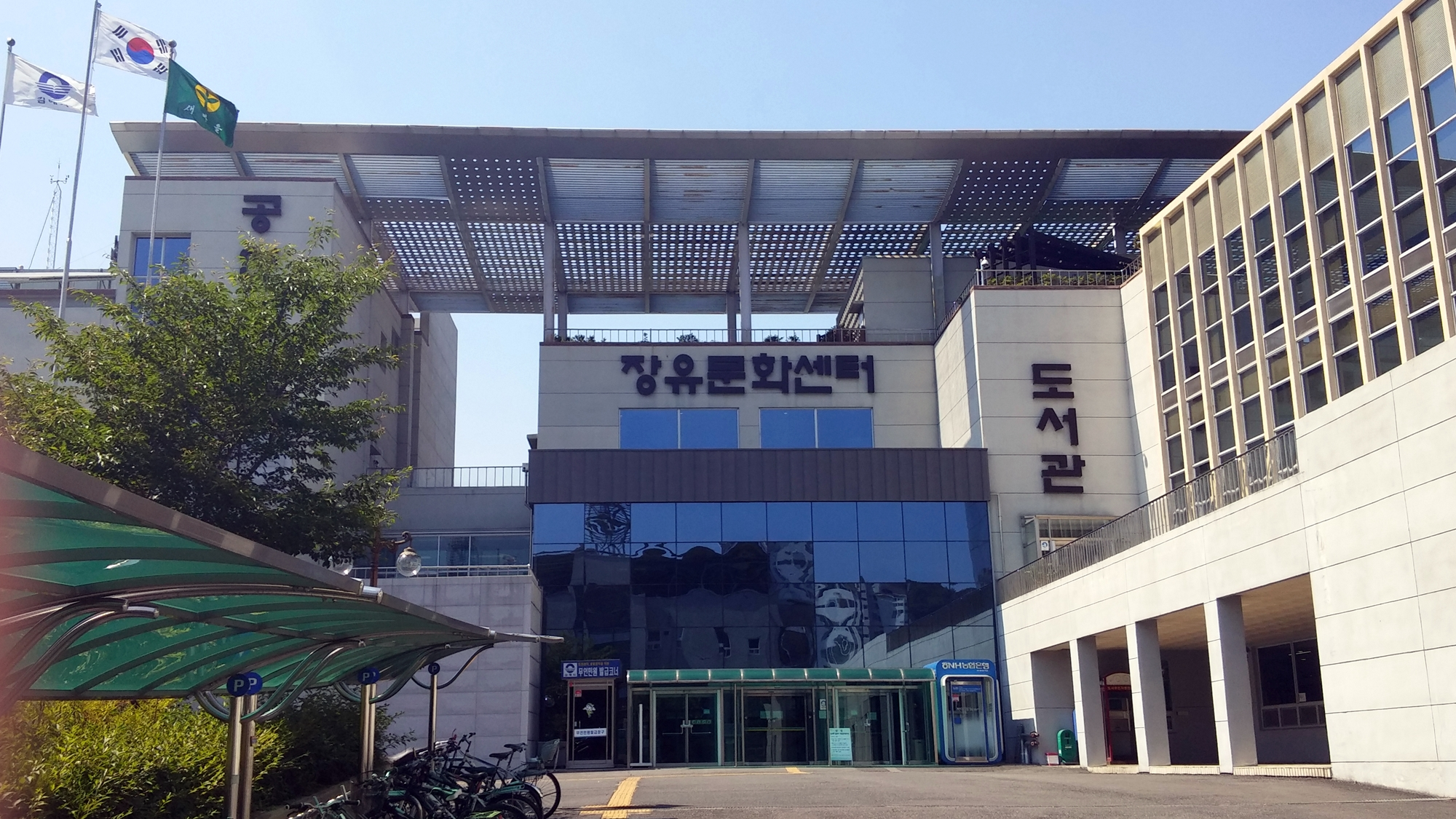 Jangyu Library in Gimhae, South Korea. (also known as Jangyu 'Culture' Center)